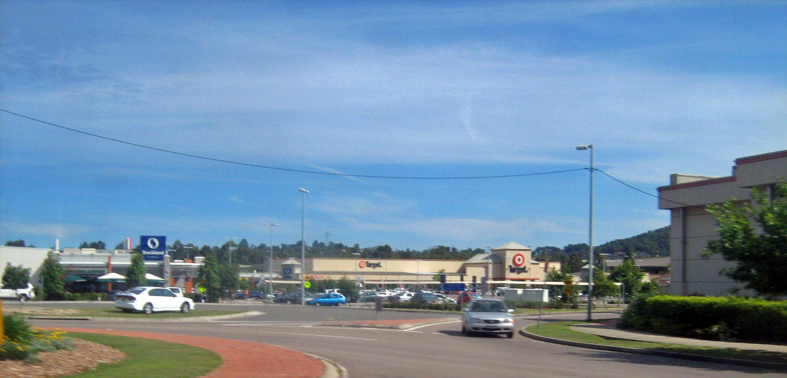 Stockland Glendale's south end, featuring a Target store, as taken from the 363 bus.